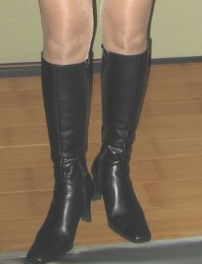 Ladies Boots